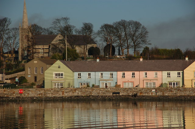 Killyleagh harbour (1) Killyleagh’s fortunes were closely linked with linen and leather. Both have now gone. The small harbour was used by a local merchant to import coal. That, too, is history with the last ship calling in 1991. The harbour has been redeveloped for housing. This view could be any one of many similar developments anywhere save for the parish church of St John the Evangelist in the background. It was consecrated in 1640. The spire was added in 1825. The churchyard contains the grave of the Hon Henry Blackwood, the captain of HMS Euryalus at the Battle of Trafalgar.